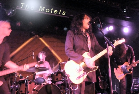 A photo of the band "The Motels" playing live.